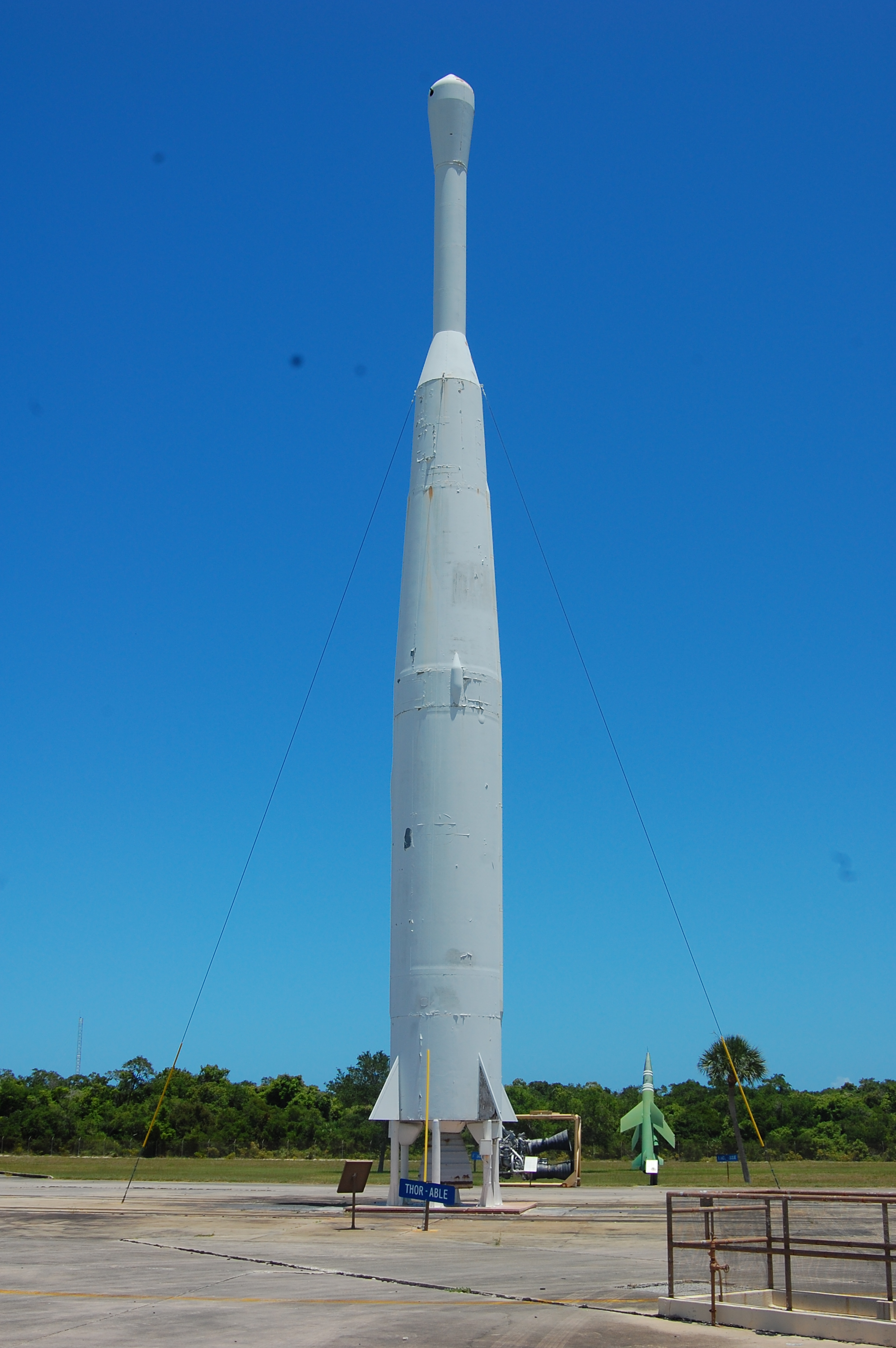 Thor-Able on LC-26B (not the type of rocket launched there)